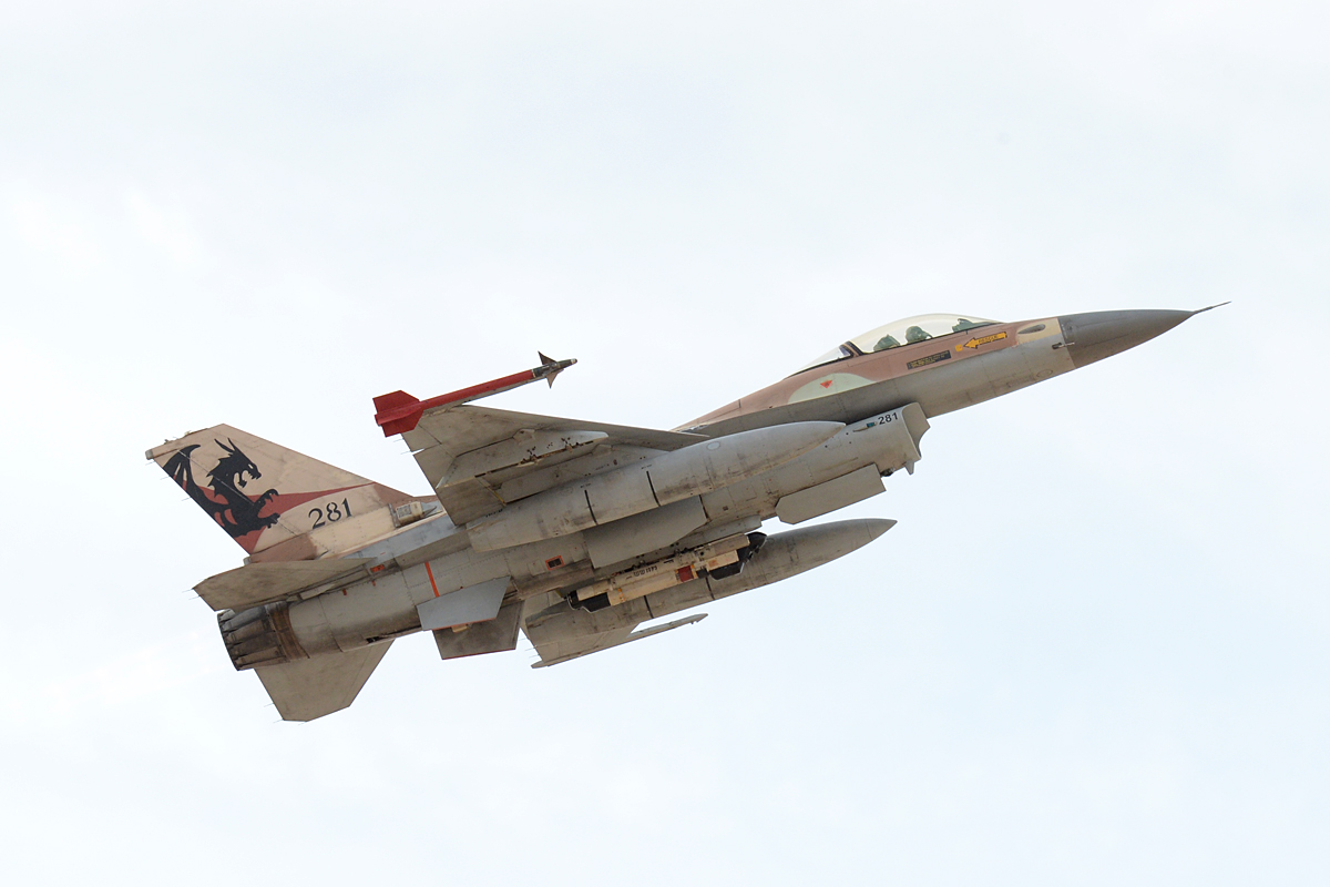 Blue Flag 2013 is a multinational aerial combat exercise with participation of the air forces of the U.S., Israel, Italy, and Greece, held at the Ovda air base in southern Israel. Ambassador Dan Shapiro was the guest of the Israeli Air Force and the 492nd Fighter Squadron that flew their F-15E Strike Eagles from RAF Lakenheath Airbase in England. Ambassador Shapiro met the American servicemen and servicewomen charged with operating and maintaining the airplanes, received briefings from Israeli and American commanders, and watched a stunning display of F-15's, F-16's, Tornadoes, and AMX fighter jets taking to the skies. "It's a powerful symbol of the partnership between the United States and Israel when our pilots and Israeli pilots are flying together."